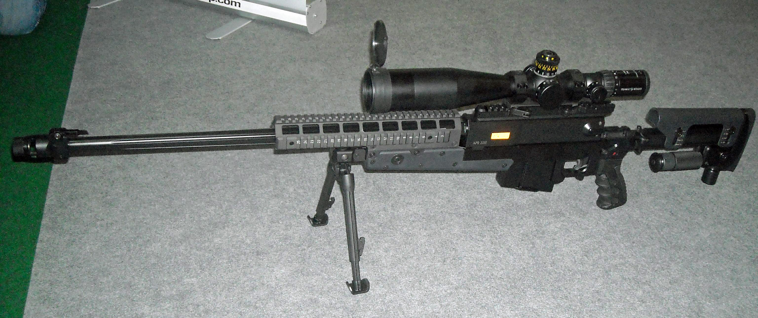 The Swiss-made Brügger & Thomet APR338. Taken by me with NIKON COOLPIX L16 camera at Kuala Lumpur, Malaysia.